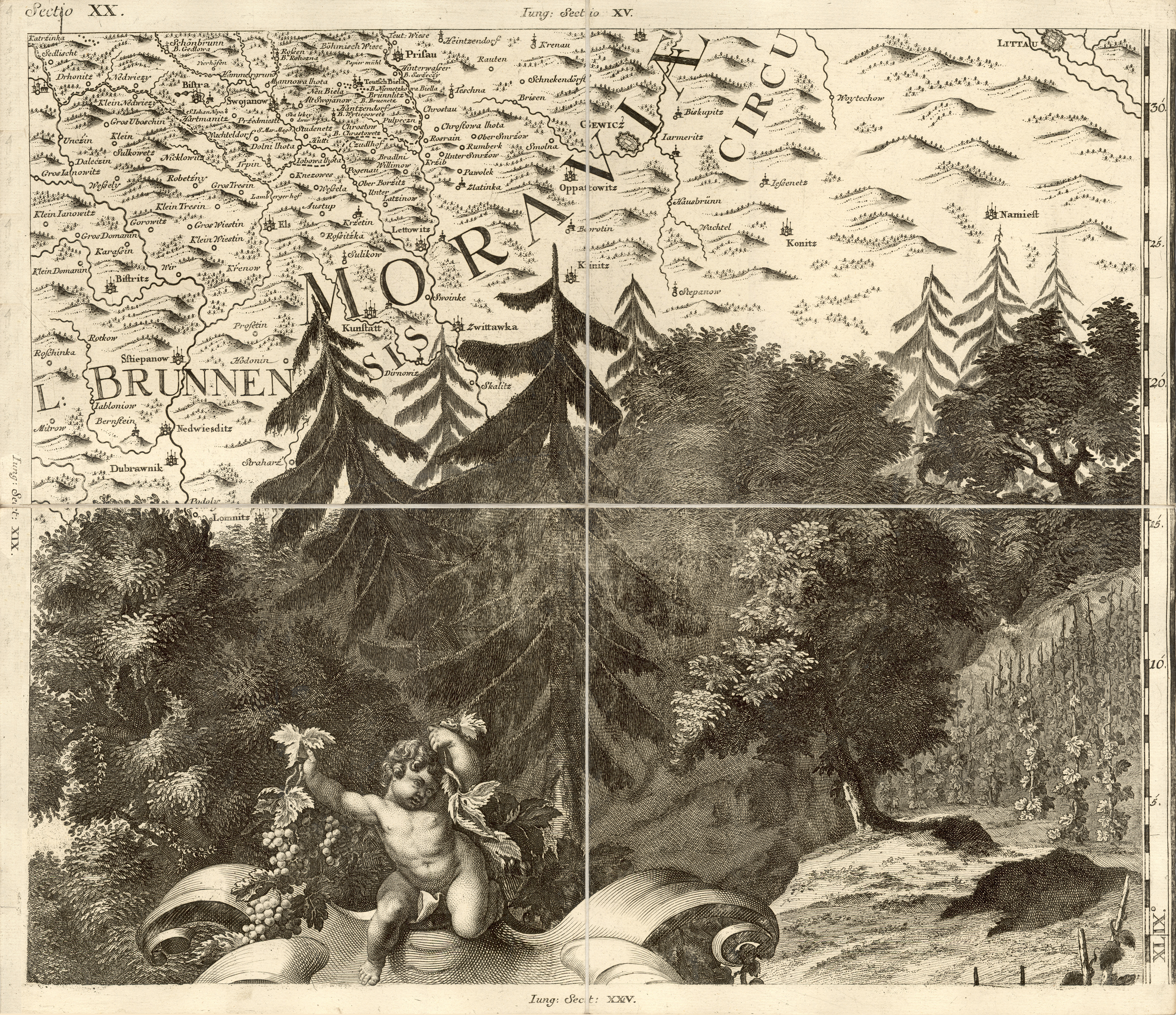 Müller's map of Bohemia.